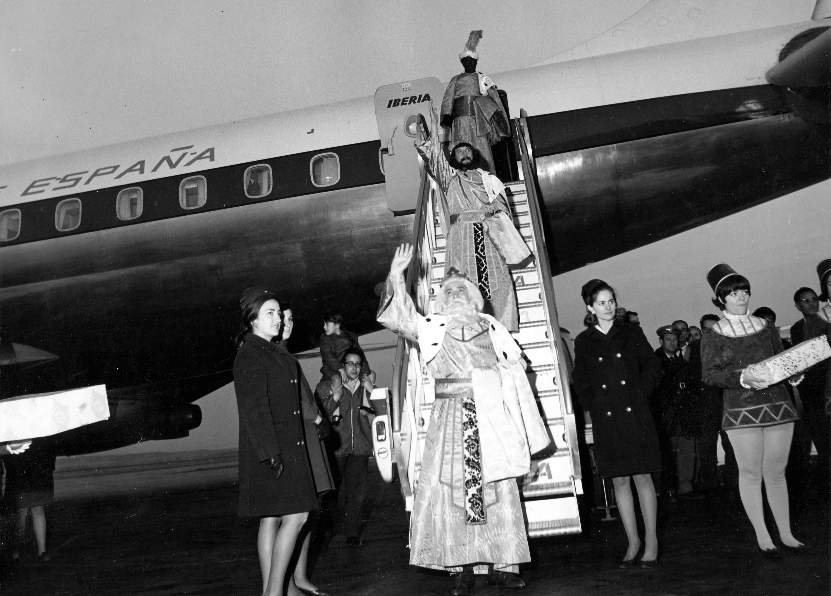 The Three Wise Men arriving at Madrid's Barajas airport on January 5, 1962, where crowds of children awaited them.